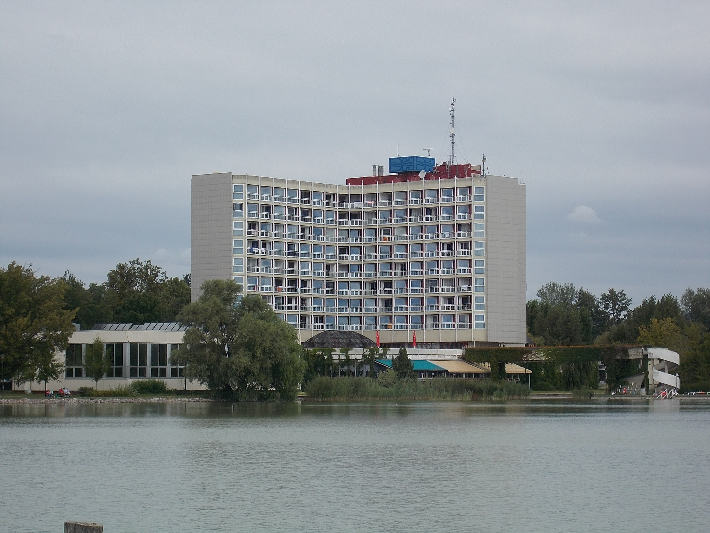 Hotel Helikon from Keszthely ship station - Keszthely, Zala County, Hungary.